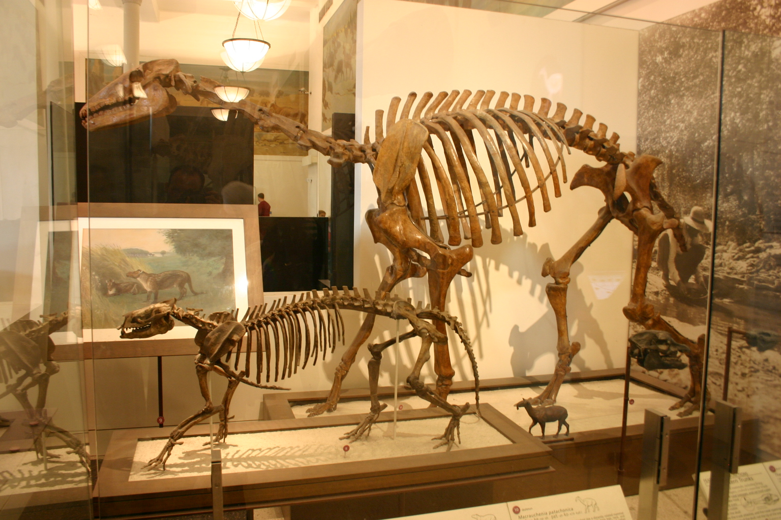 Phenacodus primaevus (near) and Macrauchenia patachonica (far)